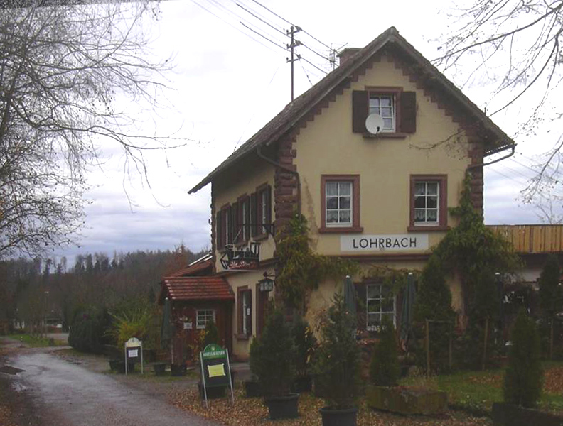 The former station of Lohrbach on the "Odenwaldexpress" Mosbach–Mudau (narrow-gauge railway track)